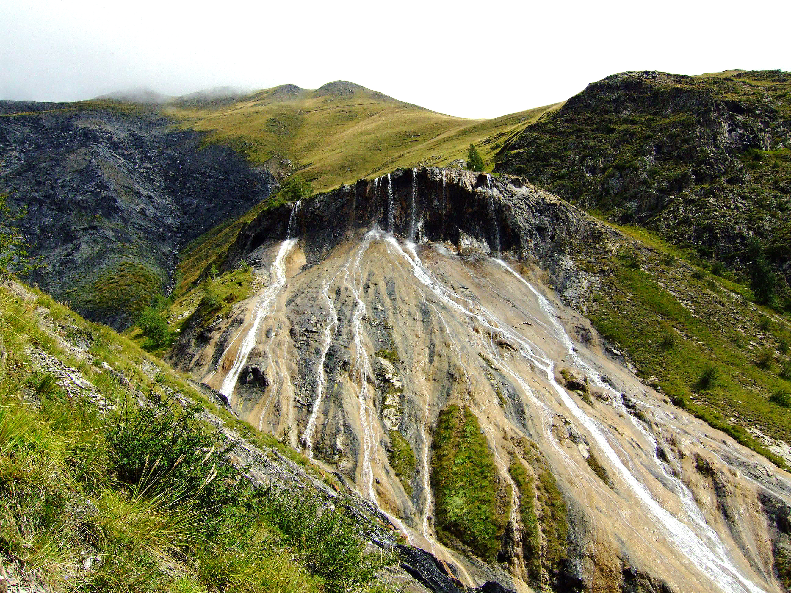 Way to Refuge des Mouterres: erosion and waterfalls.